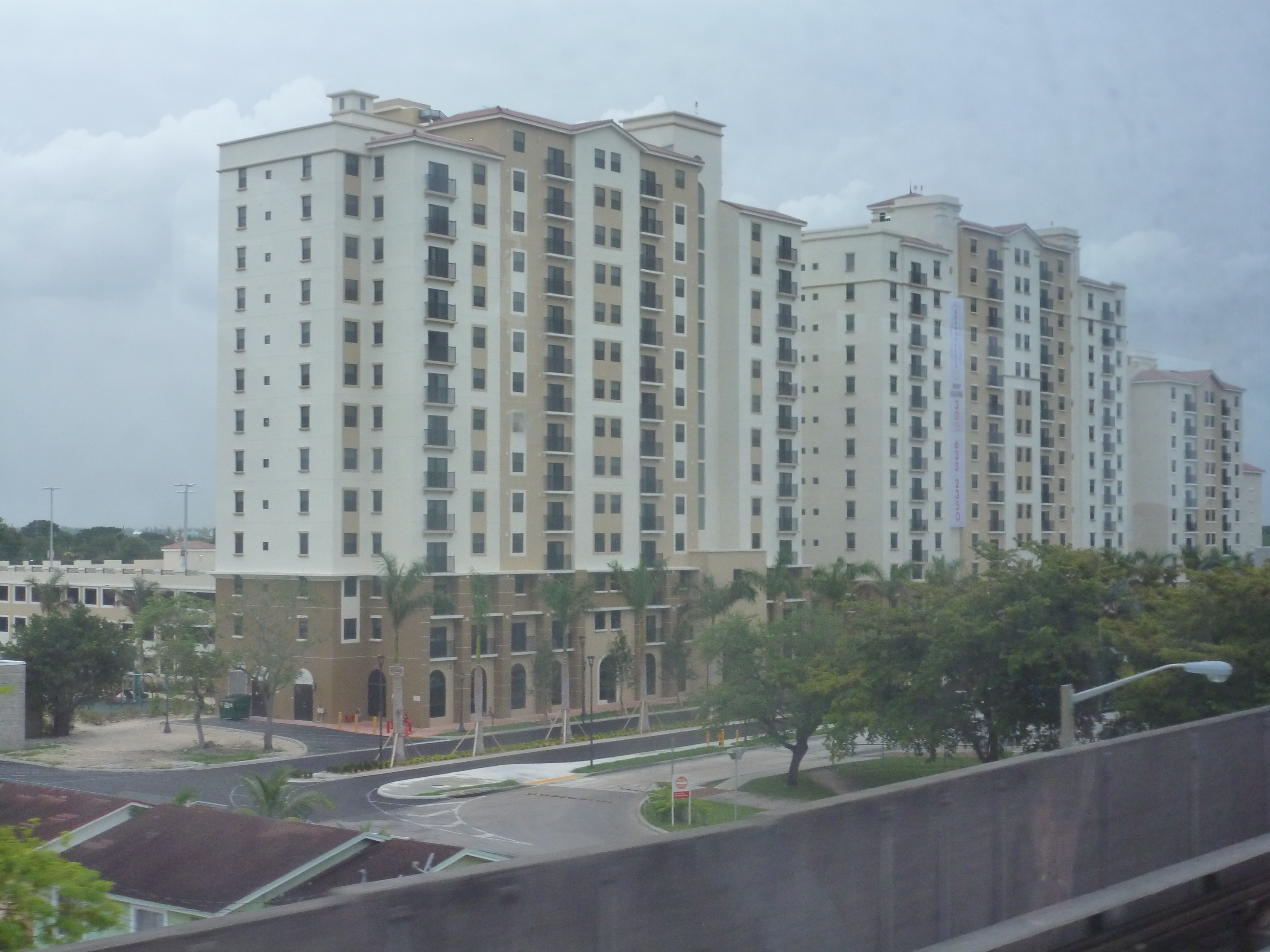 Transit-oriented development at Brownsville station in Miami.